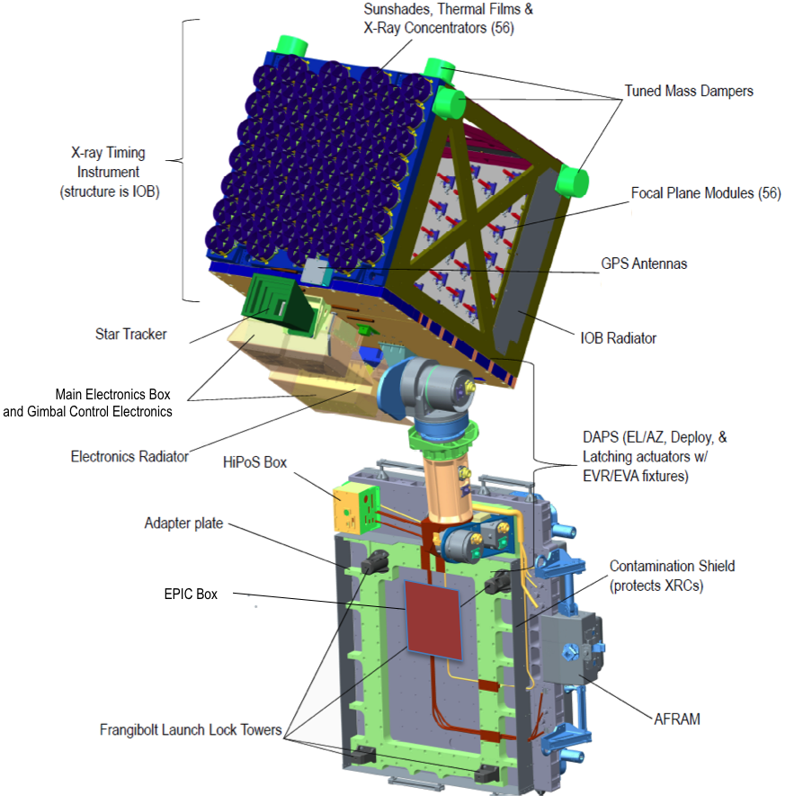 Labeled graphic of the NICER payload.